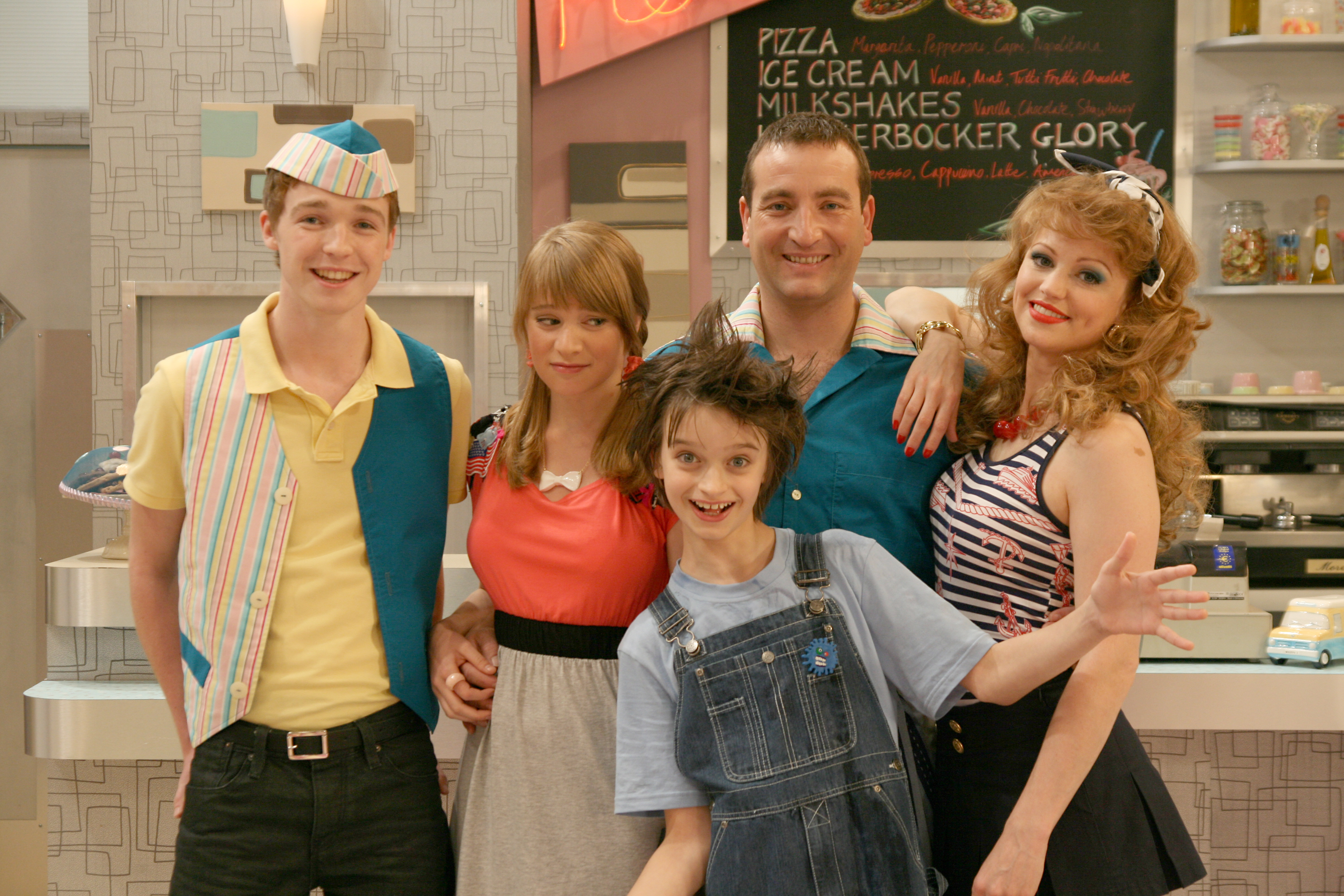 Publicity shot for the Kindle Entertainment show Jinx.